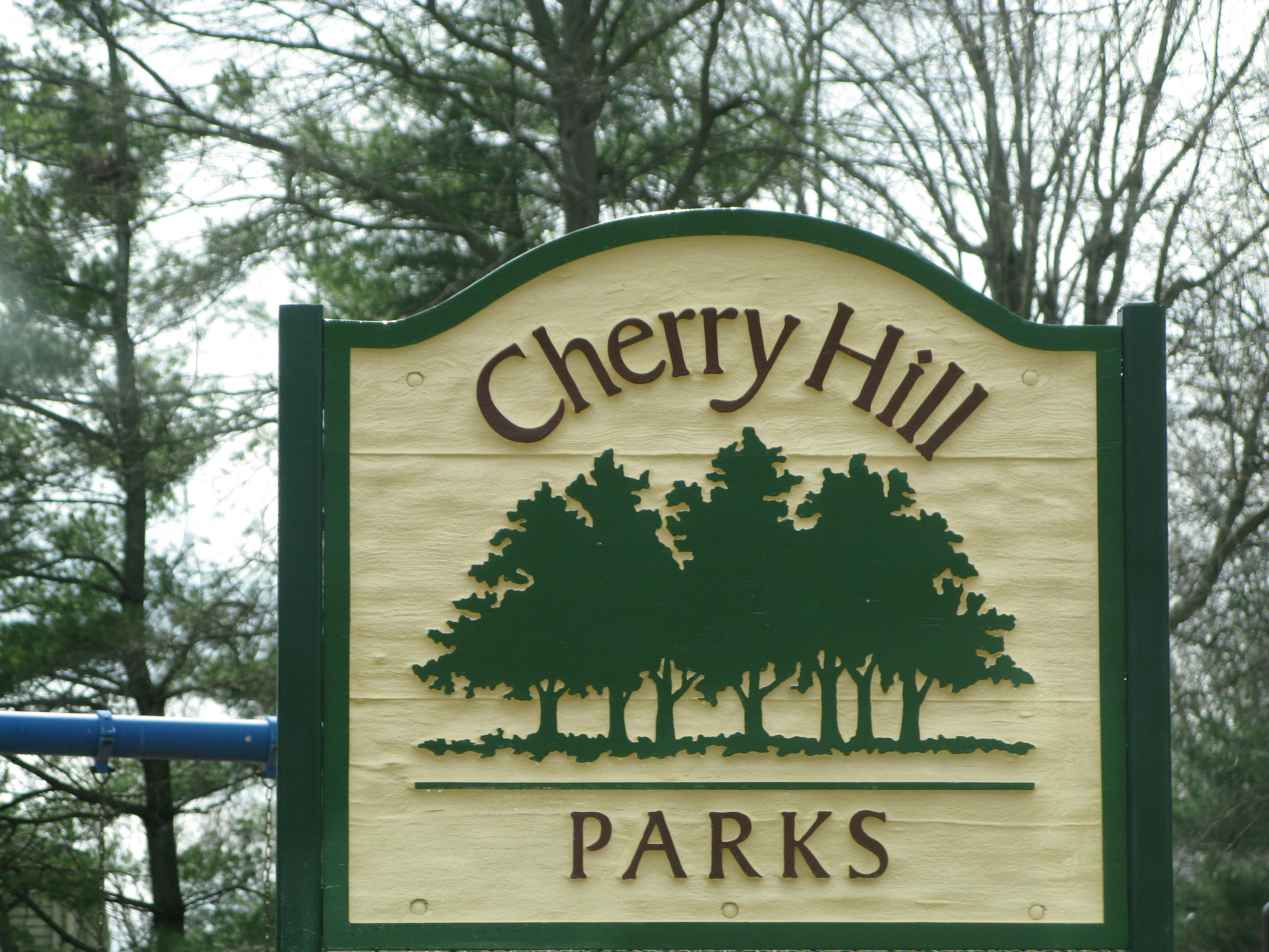 A Cherry Hill Public Parks sign located on Queen Anne Drive in Cherry Hill, New Jersey. Photo taken in March 2011.